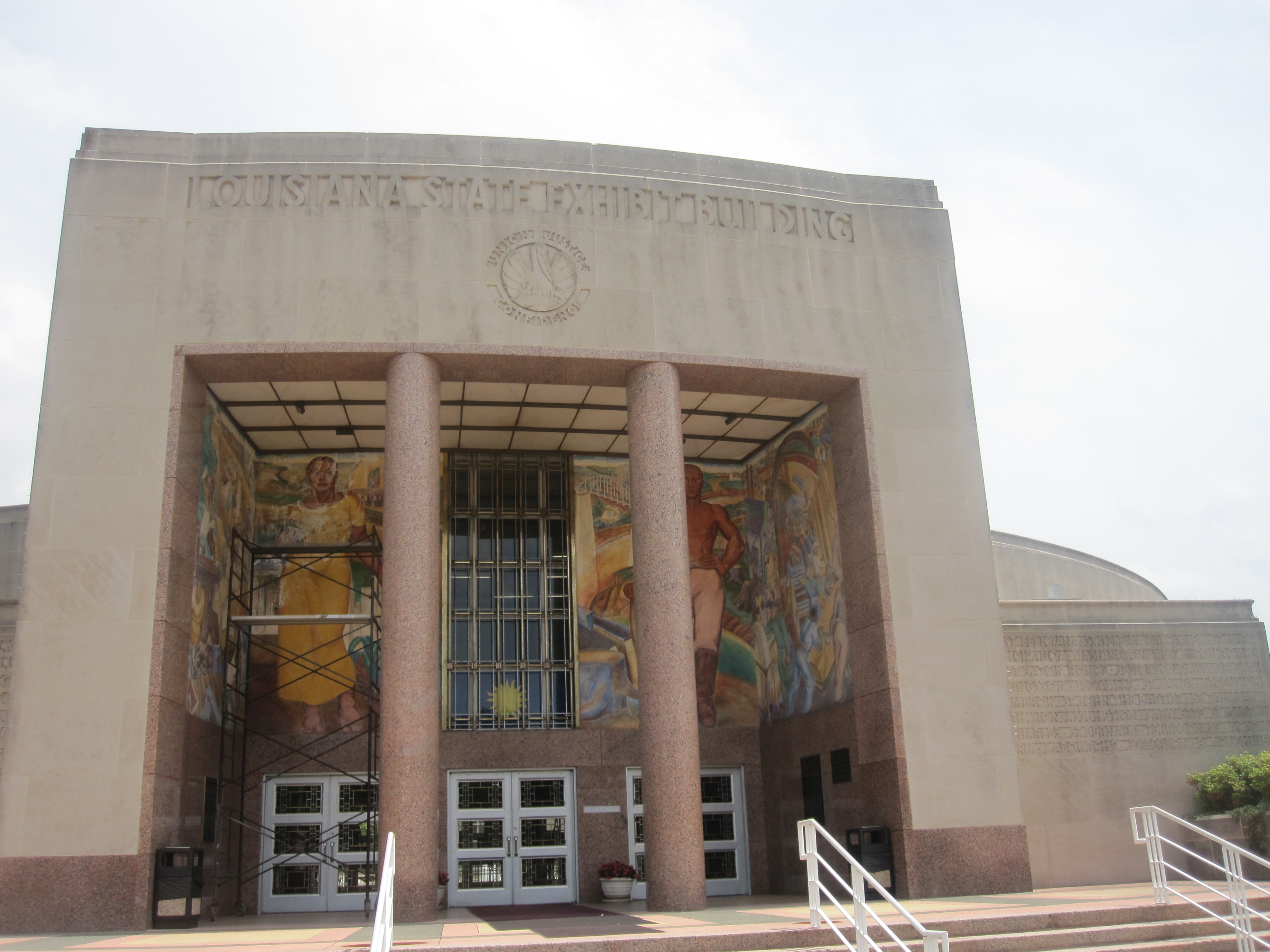 Photo of a building